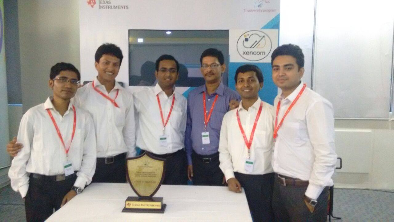 MSIT ECE team (Xencom) with their Kit